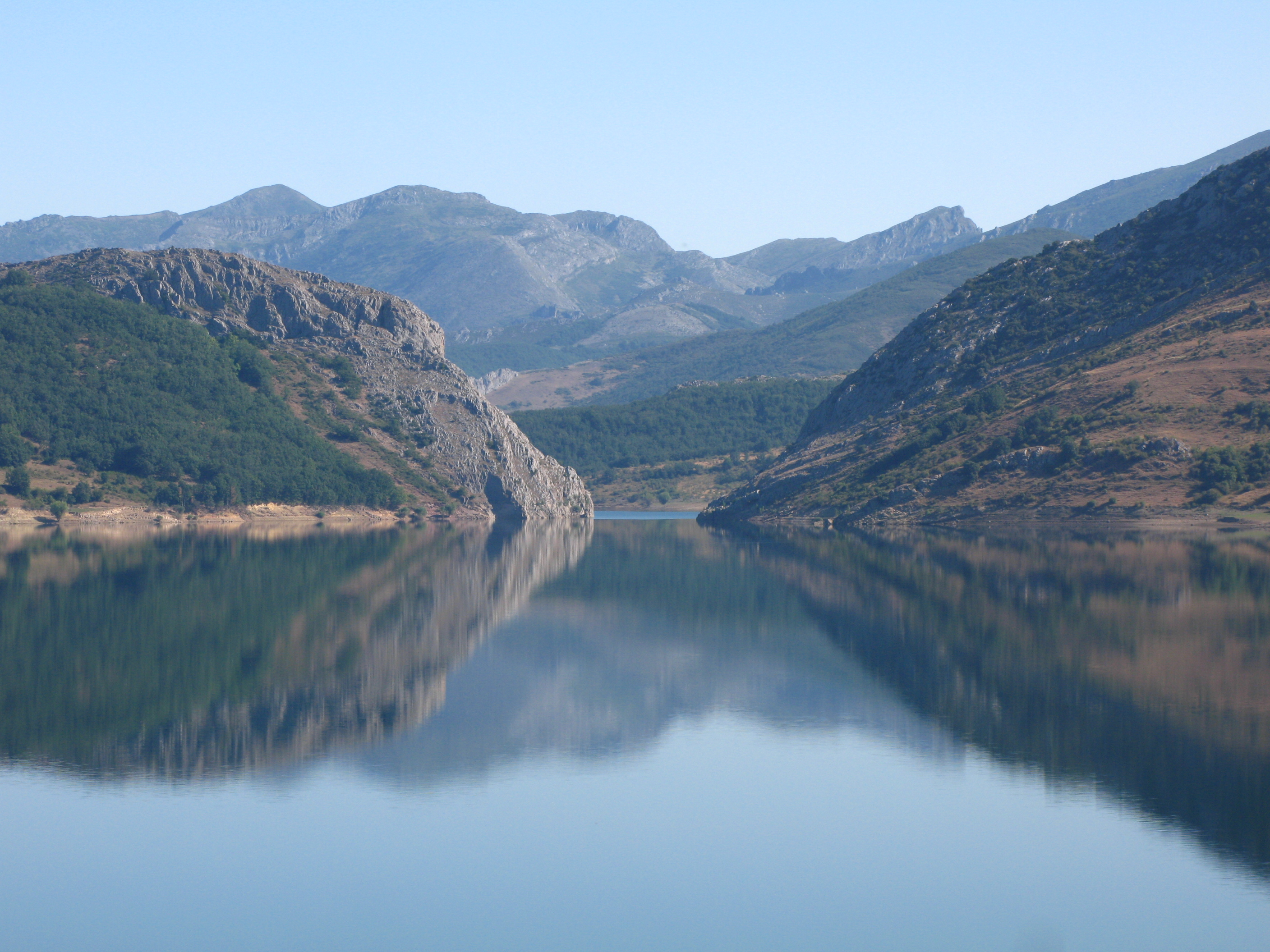 This is a photography of a Special Area of Conservation in Spain with the ID: ES1200008. Natura2000 entry, EEA entry